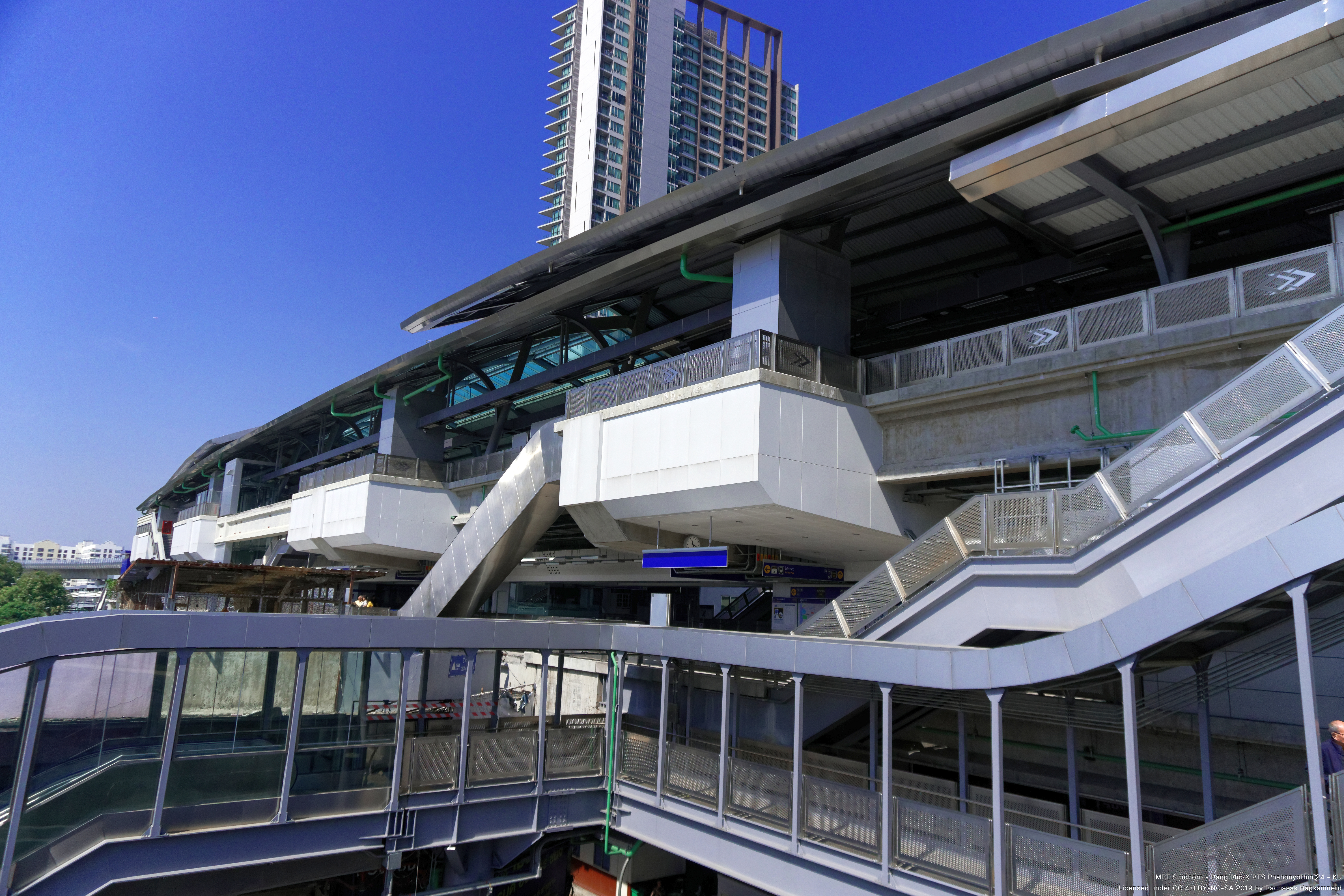 MRT Bang Pho - Station viewing from Exit 3 pedestrian bridge